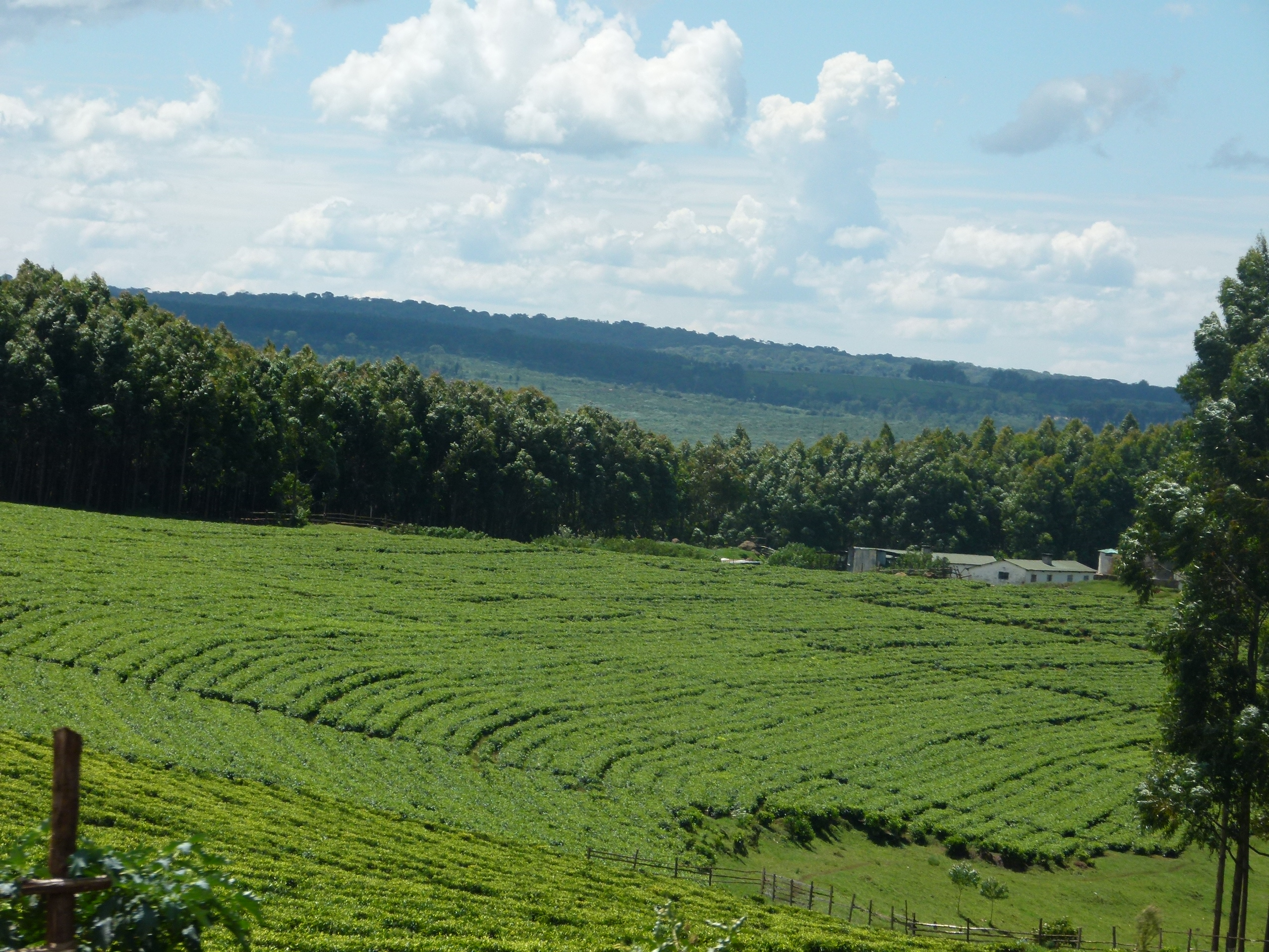 Kericho’s landscape and economy is dominated by tea farming and most of the large-scale tea plantations in the country are found in this county